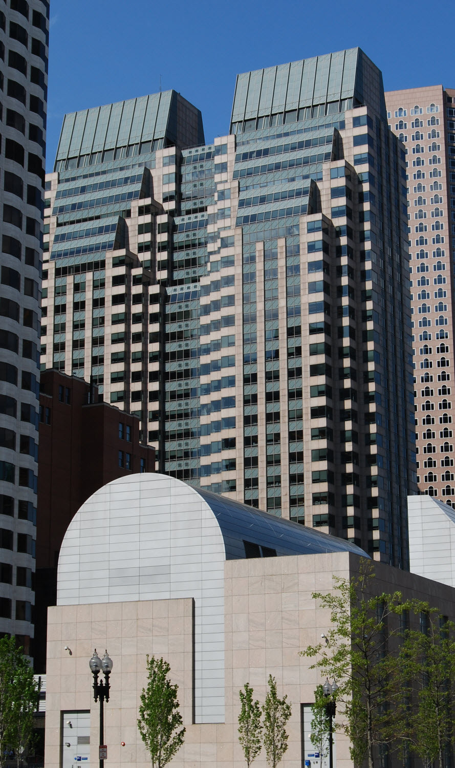 125 High Street (rear, center), Boston, Massachusetts In foreground is a ventilation shaft utility building for the Big Dig vehicular tunnel below.